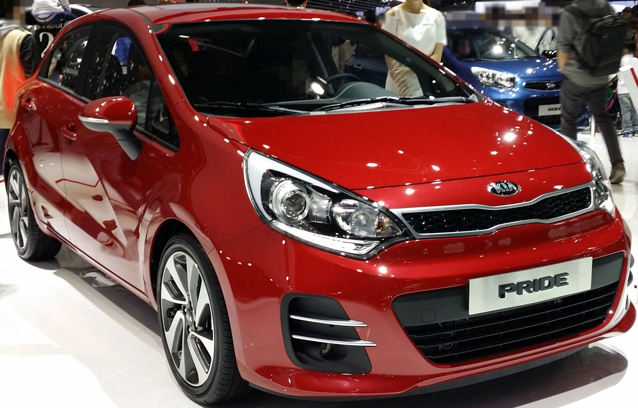 Kia The New Pride